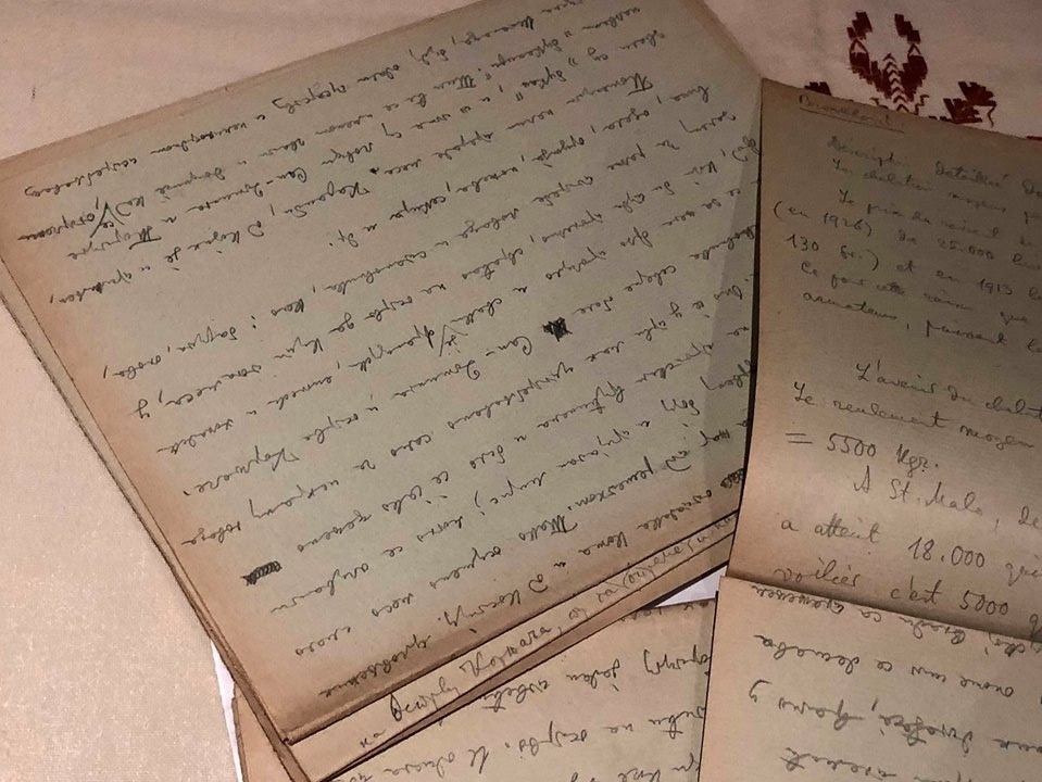 Mihailo Petrović Alas' handwritings found in the Society for Culture, Art and International Cooperation Adligat in Belgrade, Serbia. Српски (ћирилица): Рукописи Михаила Петровића Аласа. Налазе се у Удружењу за културу, уметност и међународну сарадњу Адлигат у Београду.